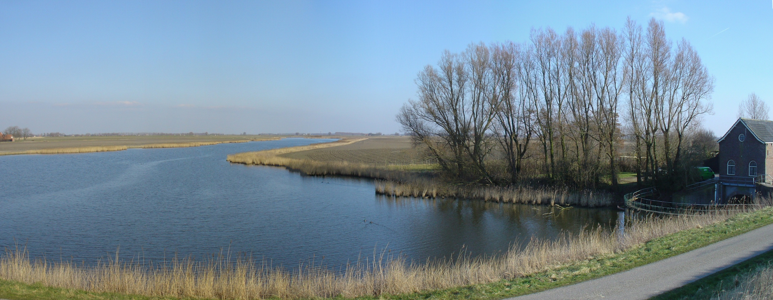 Picture made by myself on 12 march 2006 at the Westerschenge in the Netherlands